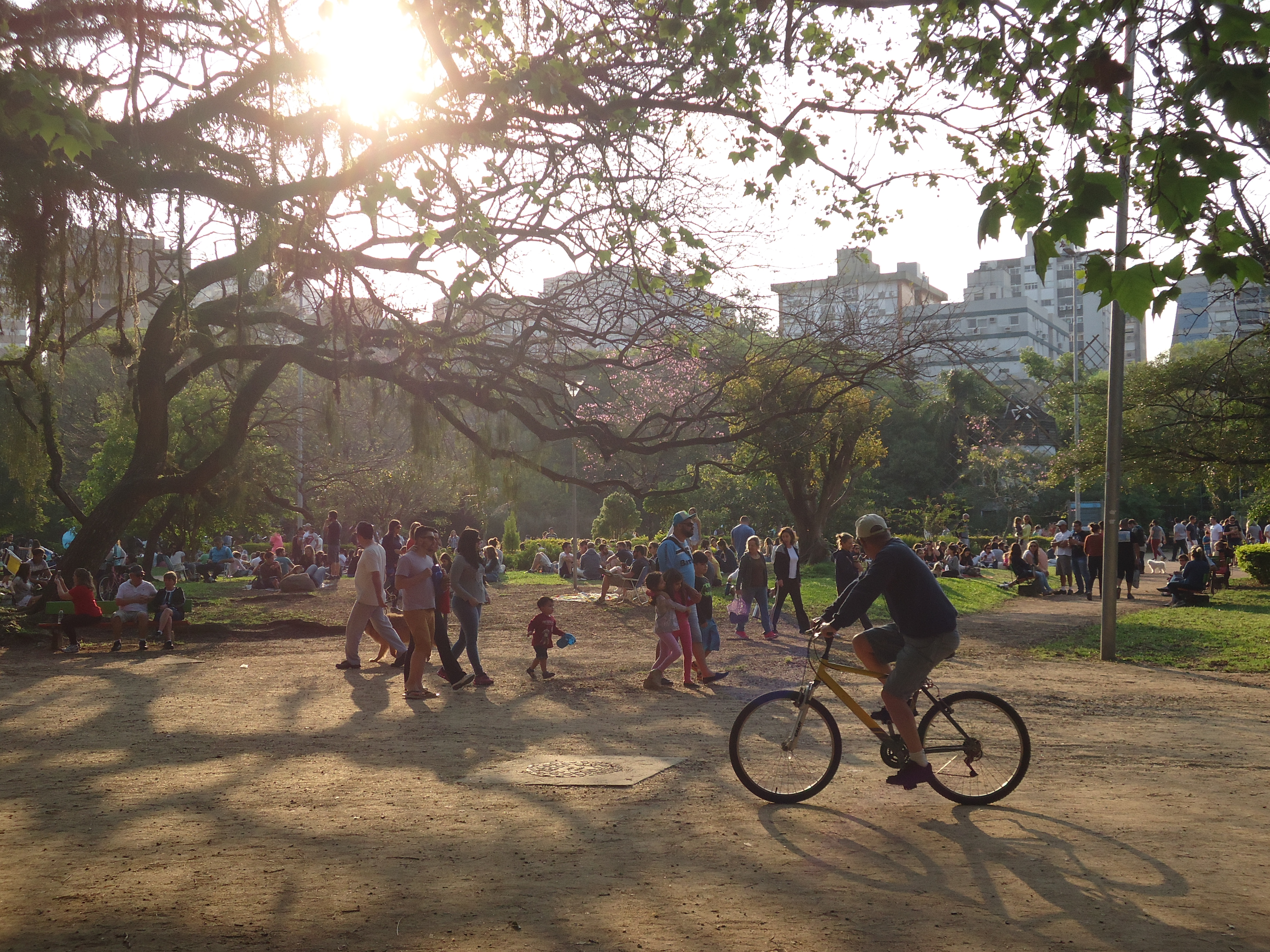 A picture from Moinhos de Vento Park on a Sunday afternoon (18 Sep 2016).